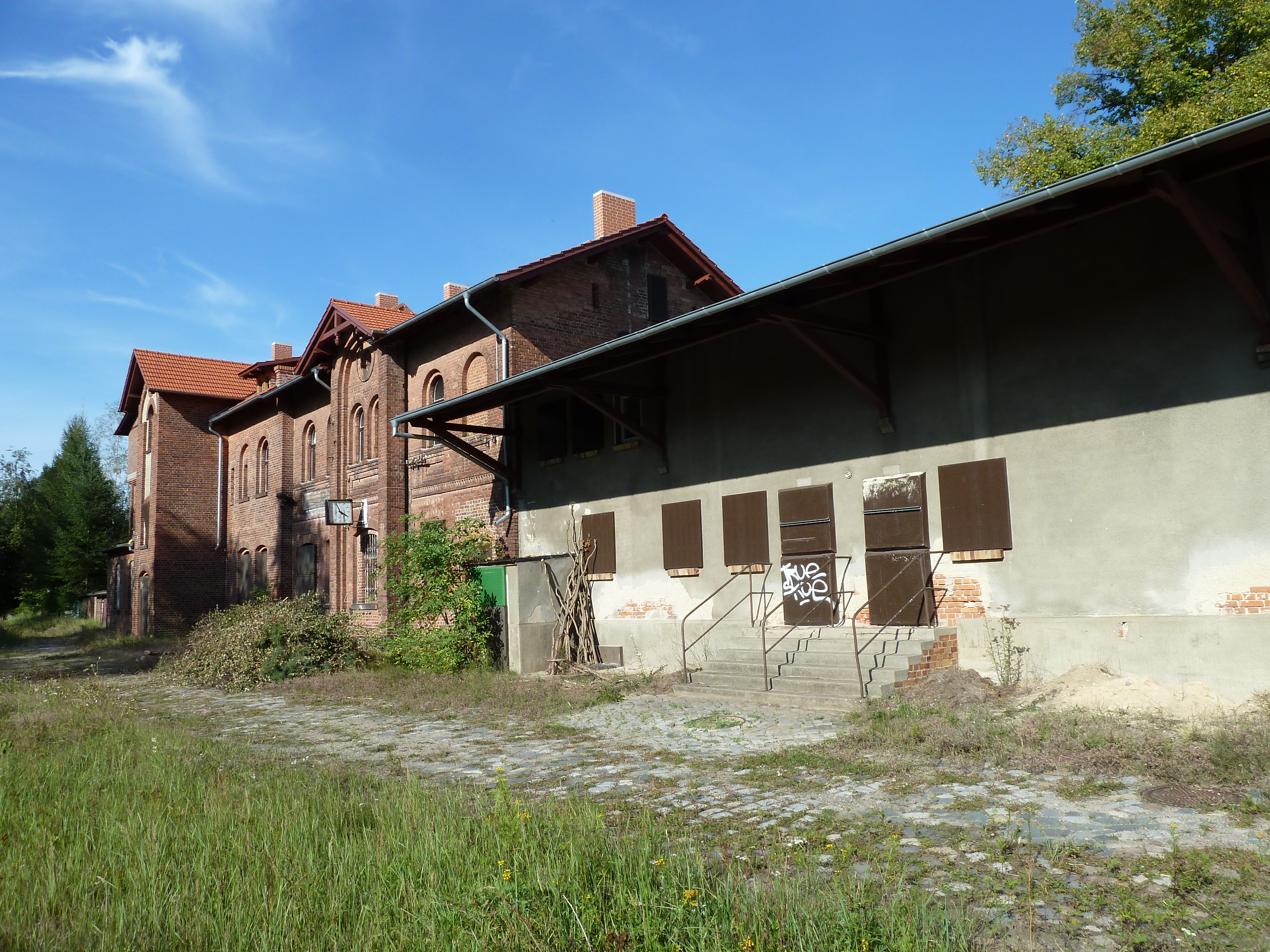 Former Jamlitz railway station, shed